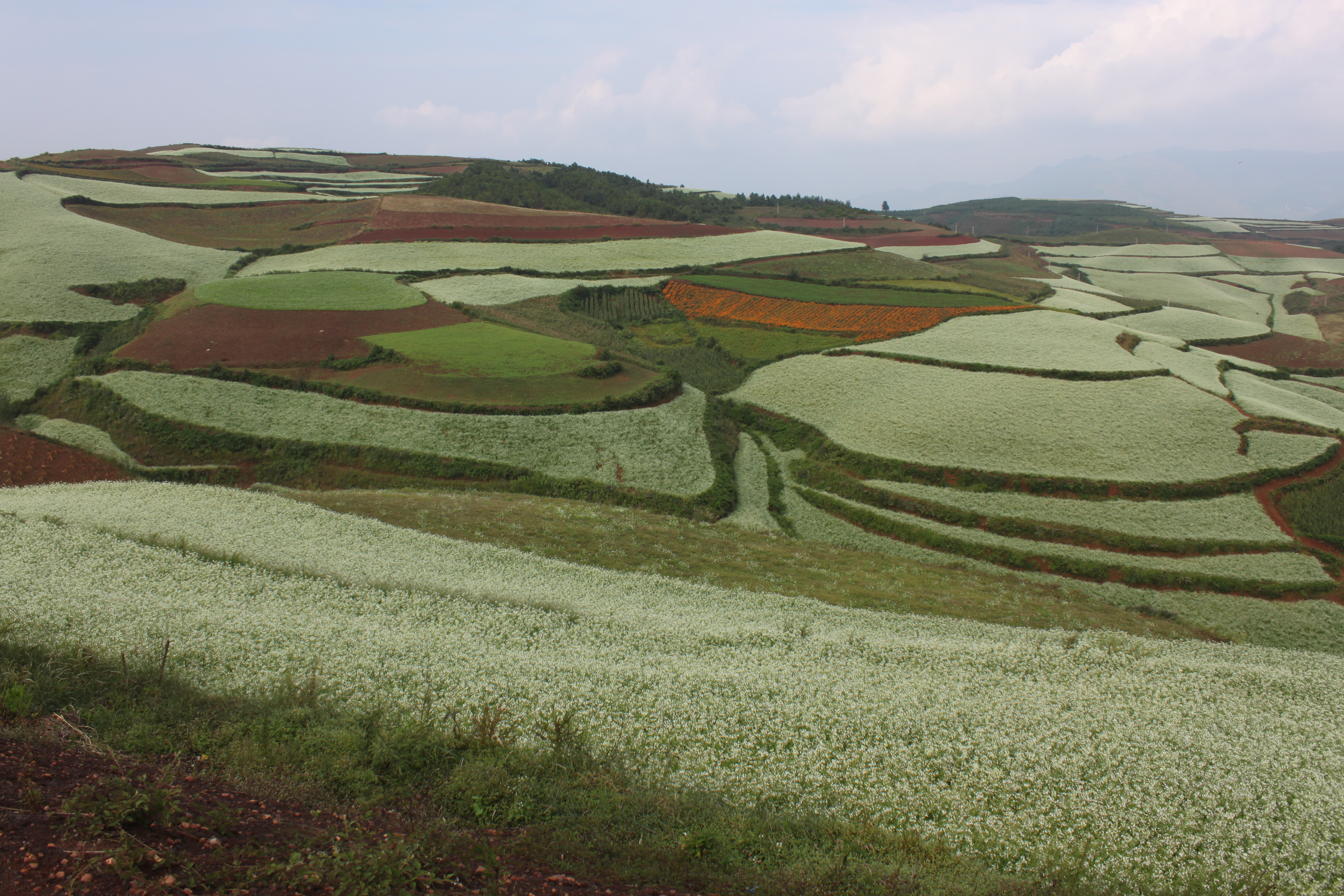 Foto of the red earth at Hongtudi in Dongchuan district